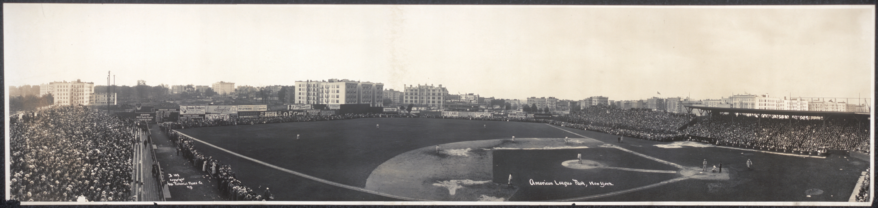 Hilltop Park/American League Park in New York City, circa 1910.